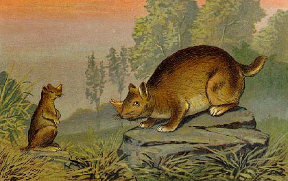 Tiere der Urwelt (Creatures of the Primitive World) Series 1 and 2 Illustrated by F. John (born/died?) Printed 1902 and 1906(?) Germany Series 2 Card 24 Epigaulus (Ceratogaulus/Horned gopher)